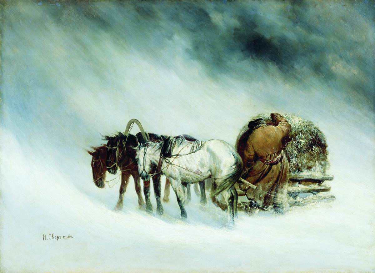 Painting by Nikolai Sverchkov